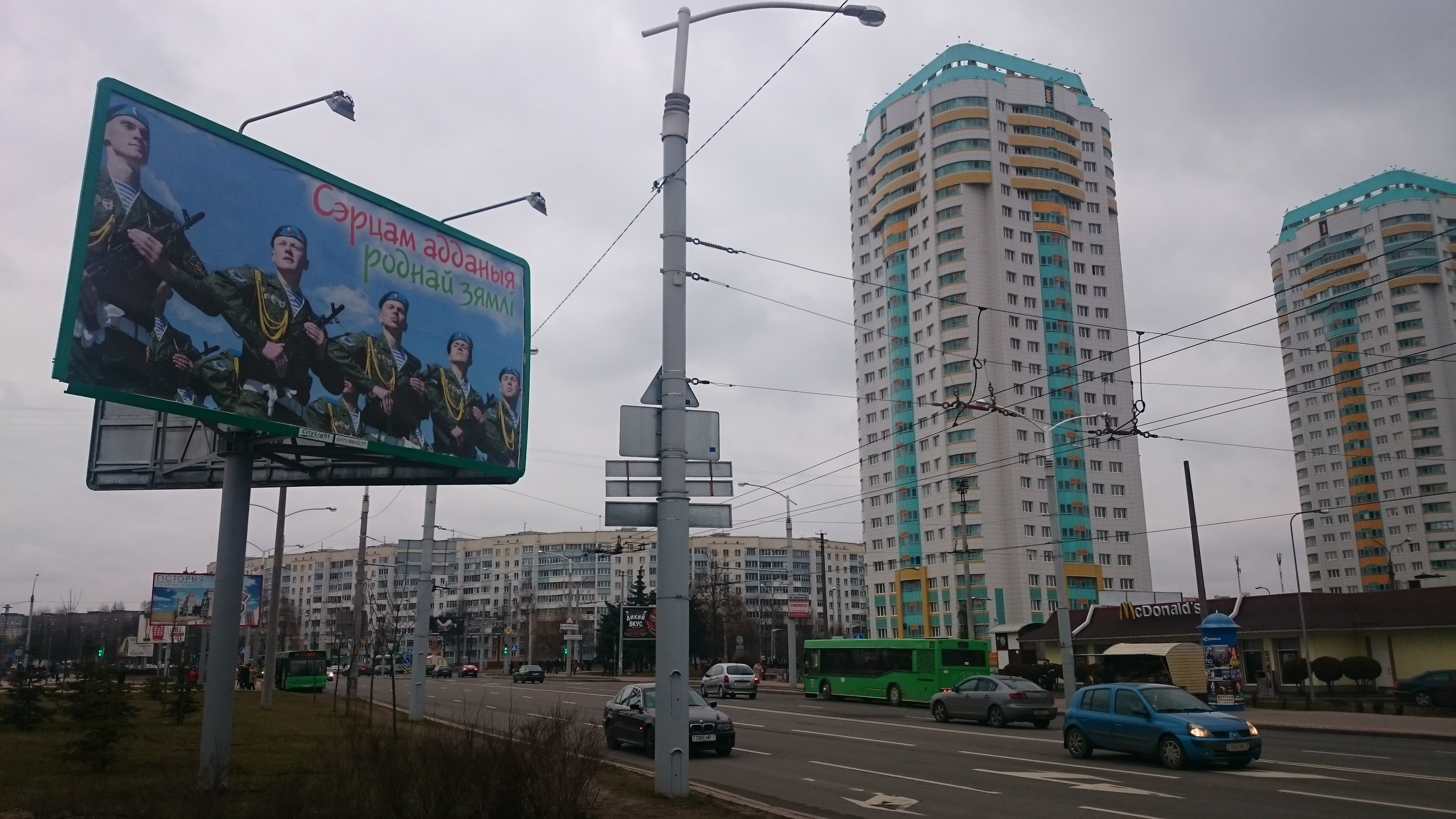 Golubeva Street, Minsk